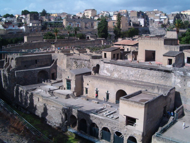 Old city of Herculaneum